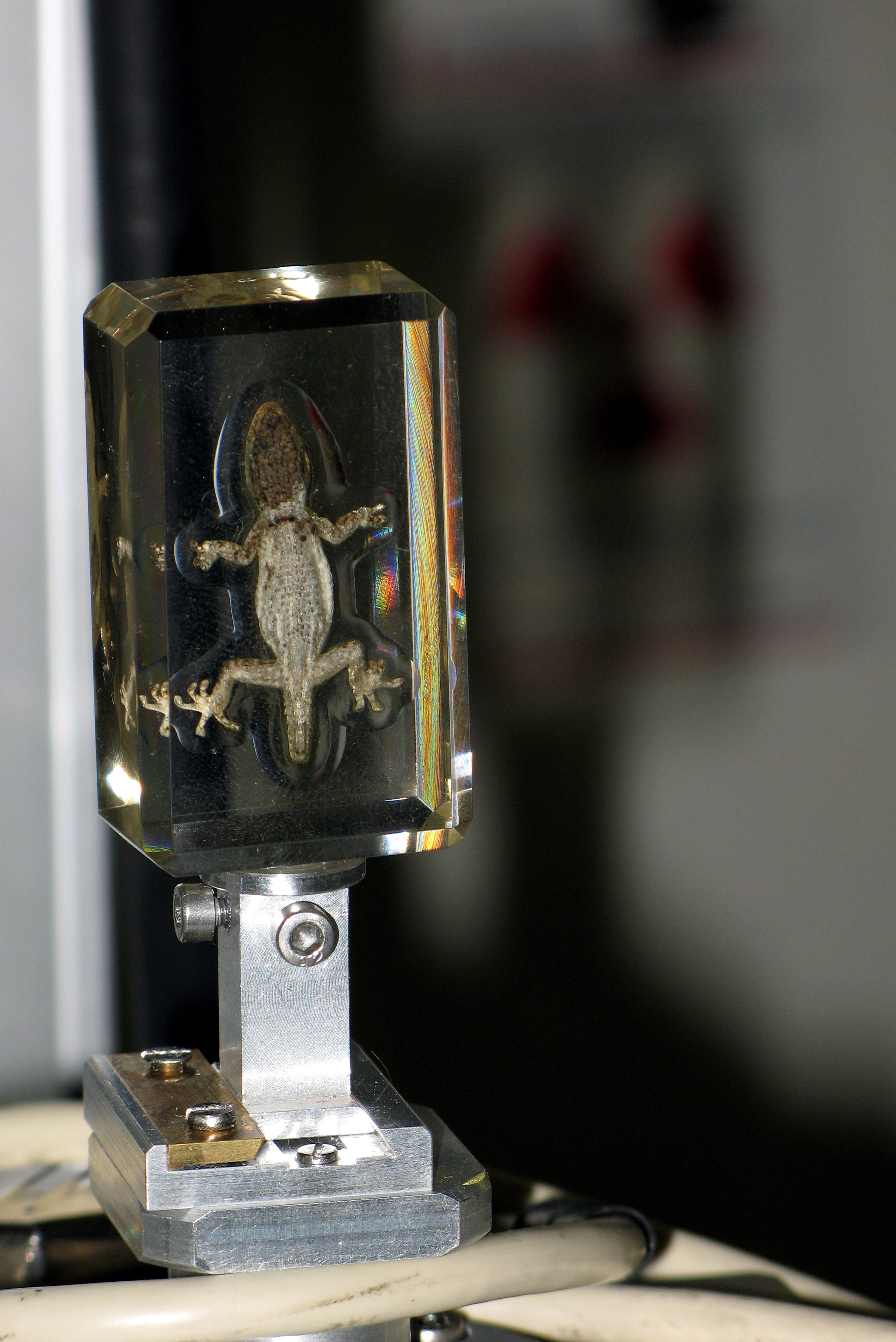 European Synchrotron Radiation Facility in Grenoble